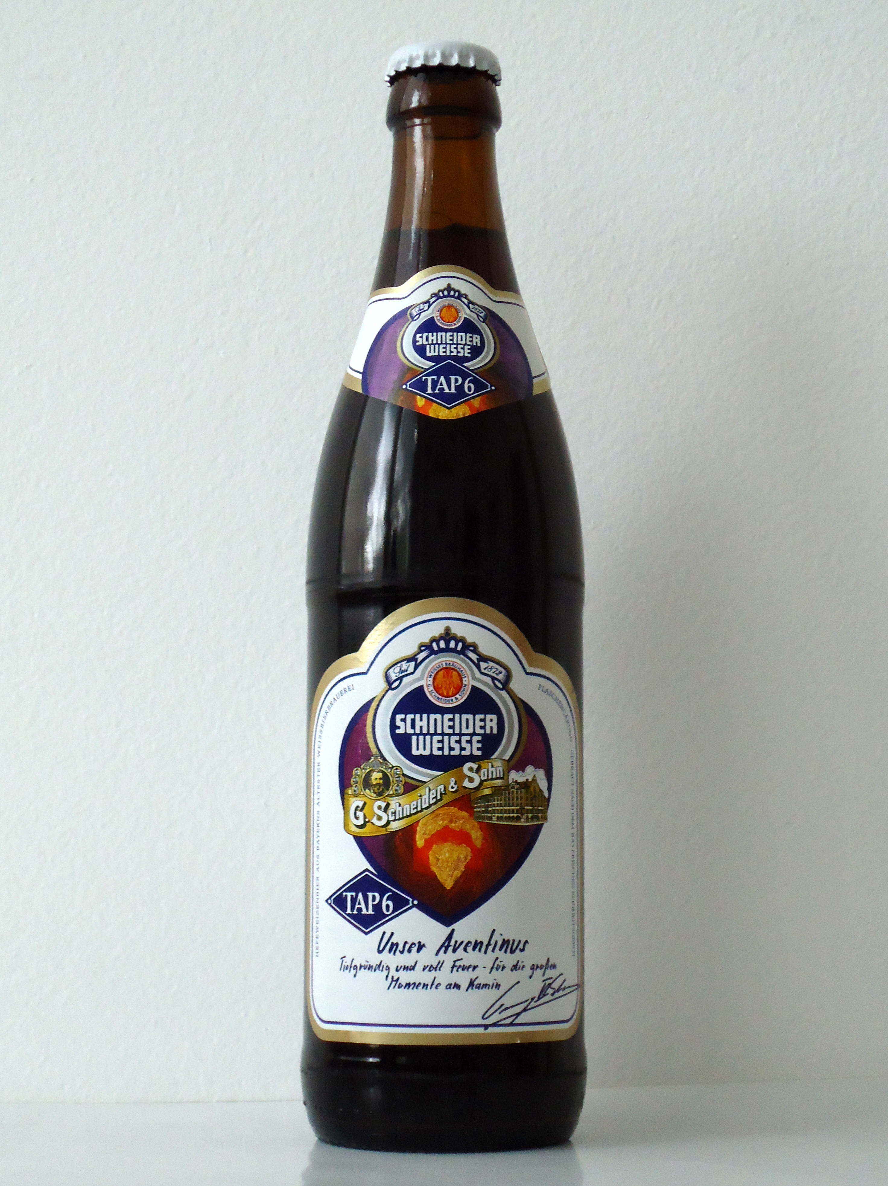 Schneider Weisse Tap 6 Unser Aventinus beer